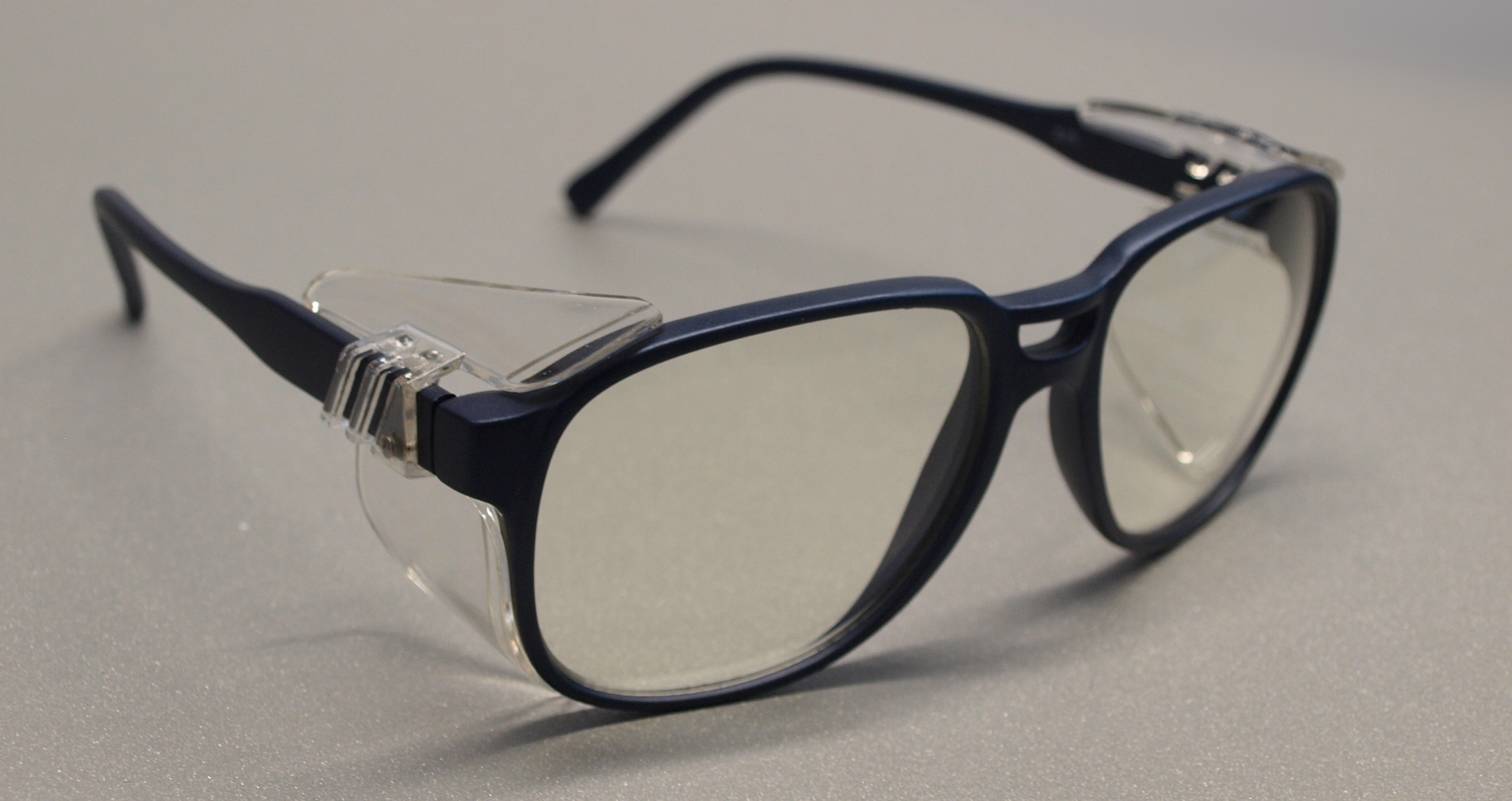 Front view of prescription safety spectatcles by manufacturer Polycore Optical